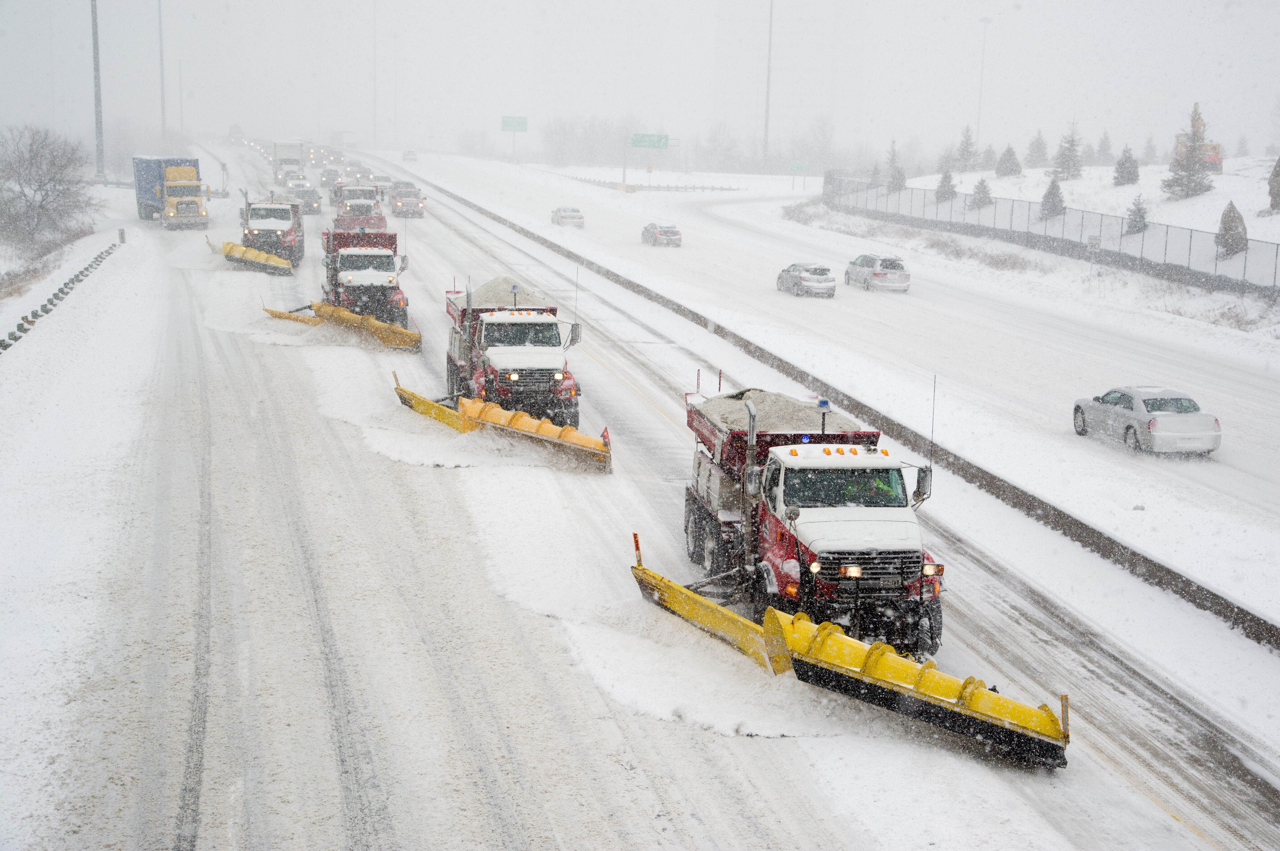 Snowploughs clearing the road during a winter storm in Toronto, Ontario, Canada.